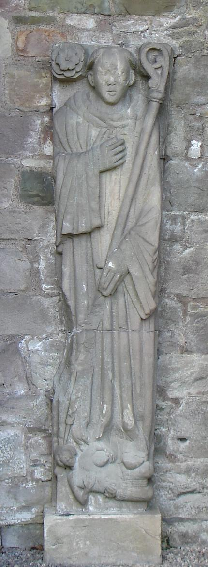 Uploader's own picture, taken at Dundrennan Abbey in summer, 2006.